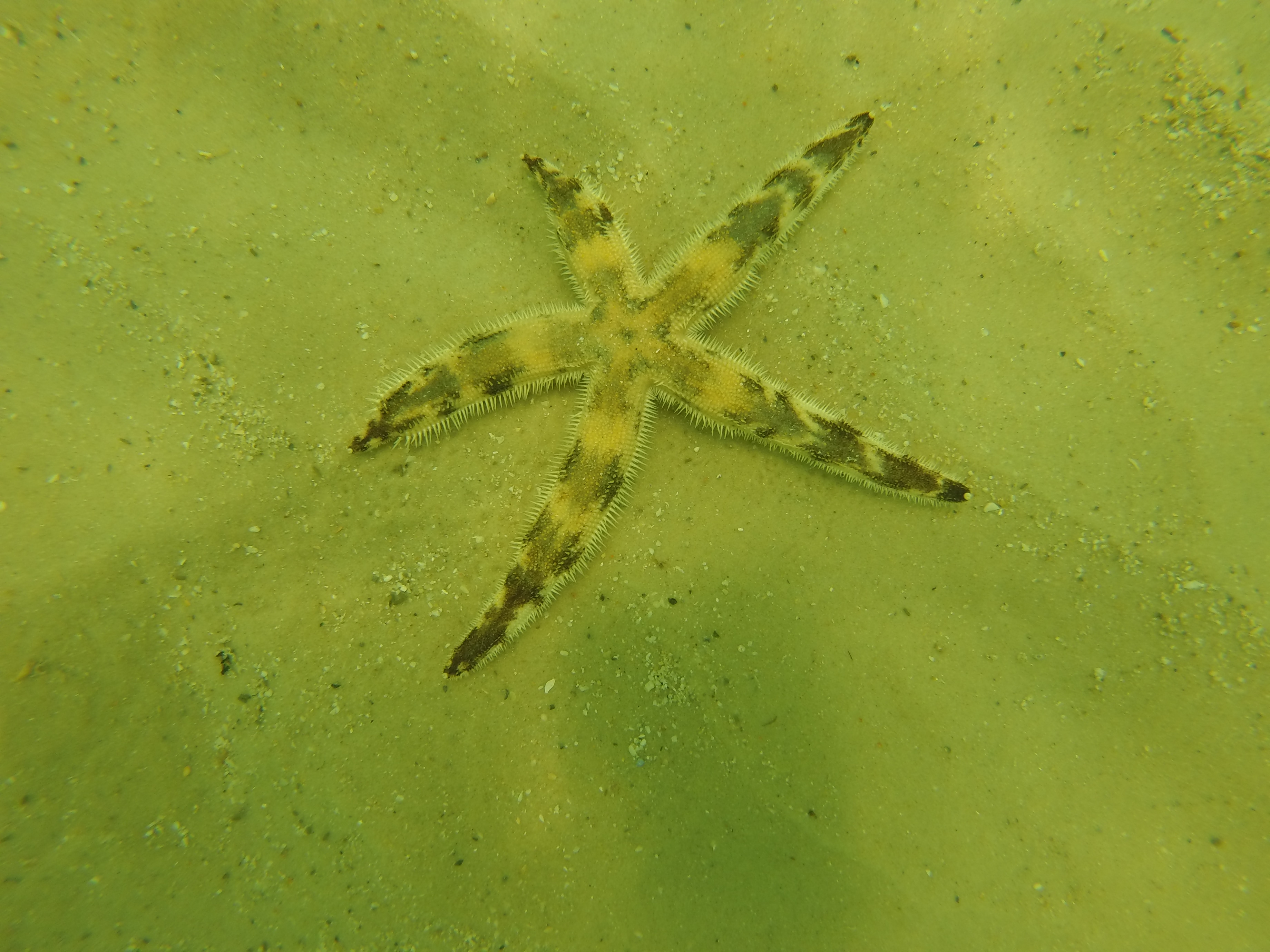 Banded sea star (Luidia alternata) photographed a couple hundred meters off the coast of Gulf Shores, Alabama, at about 3 meters depth.